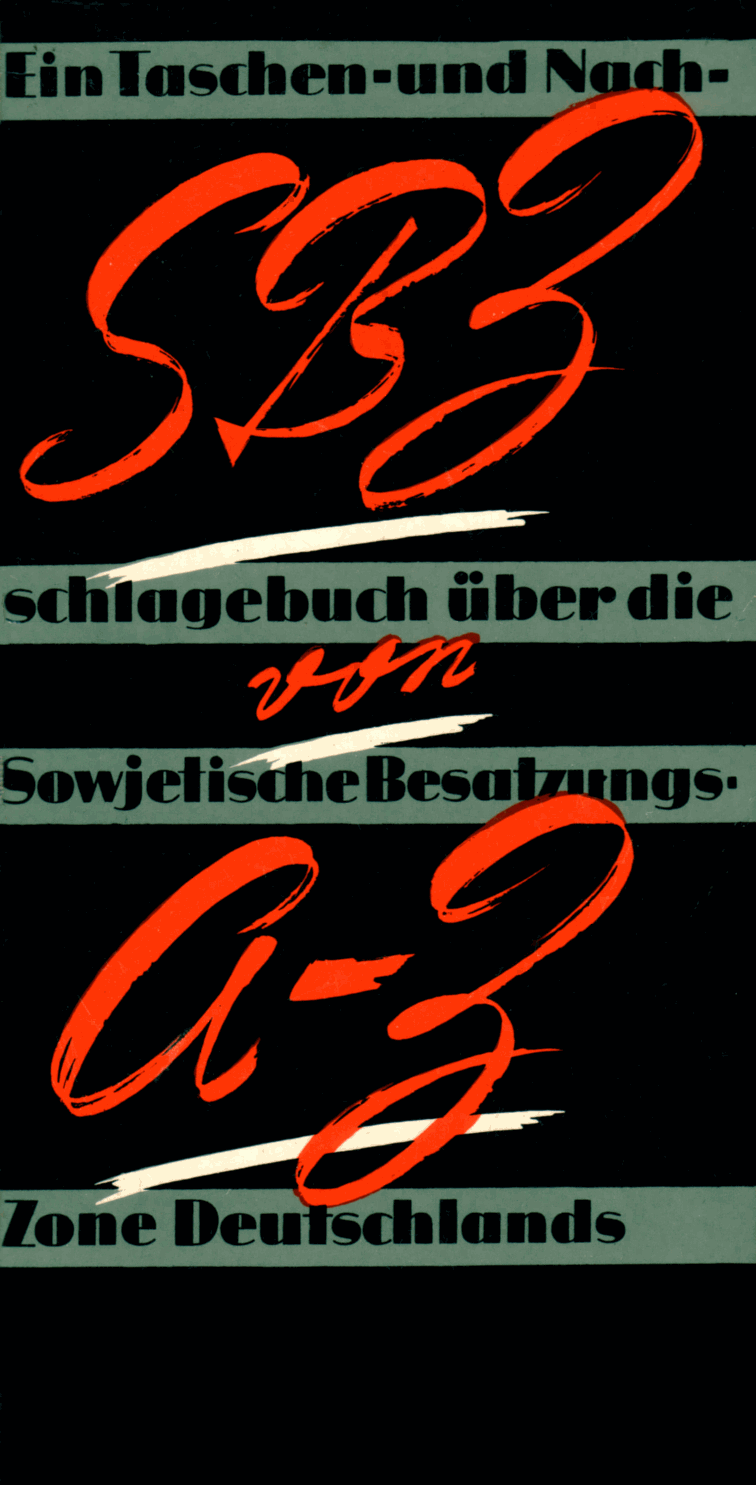 Cover of the Book SBZ von A-Z.